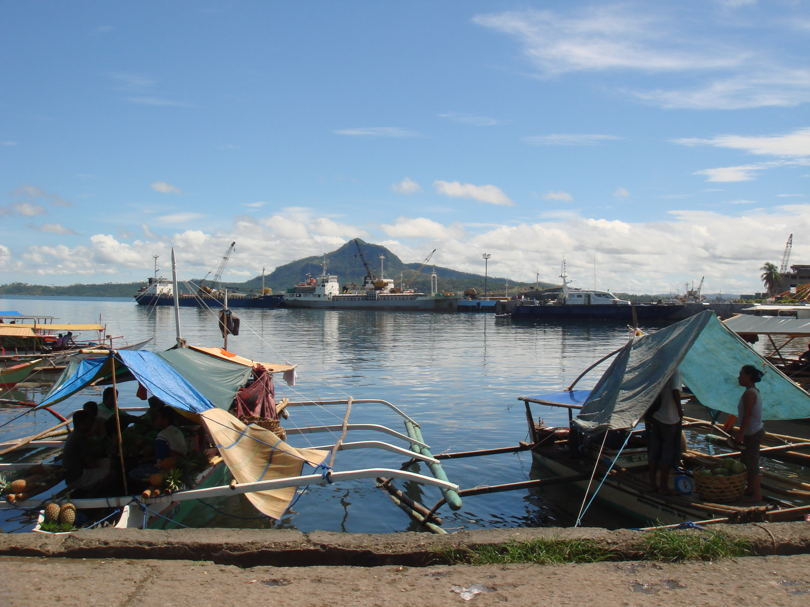 Tacloban's sheltered sea port.